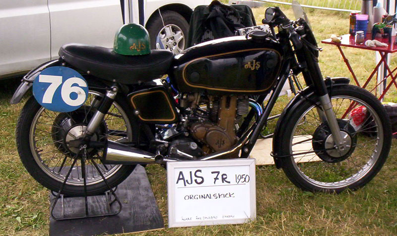 AJS 7R 350 cc Racer 1950